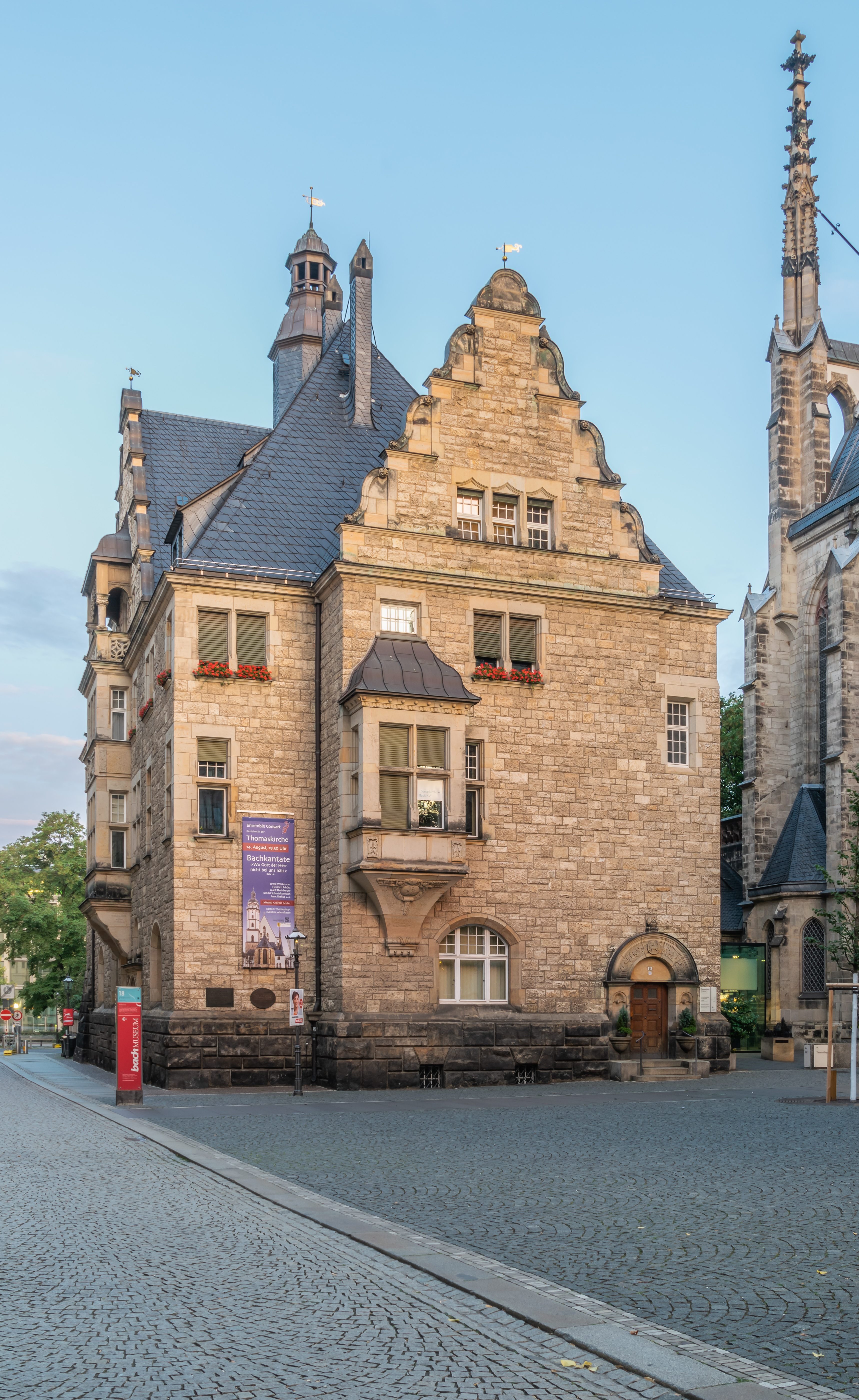 Building at Thomaskirchhof 18 in Leipzig, Saxony, Germany